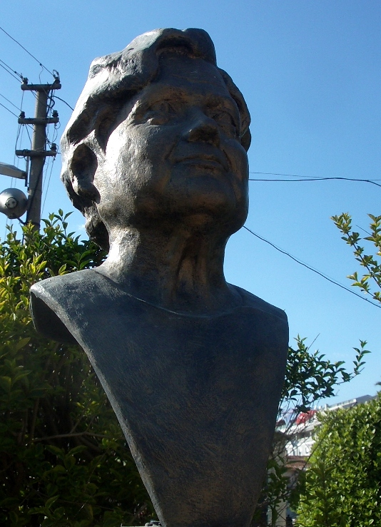 bust of Muazzez İlmiye Çığ, situated in a public park in Kuşadası, Turkey